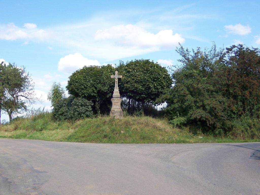 Dobročovice